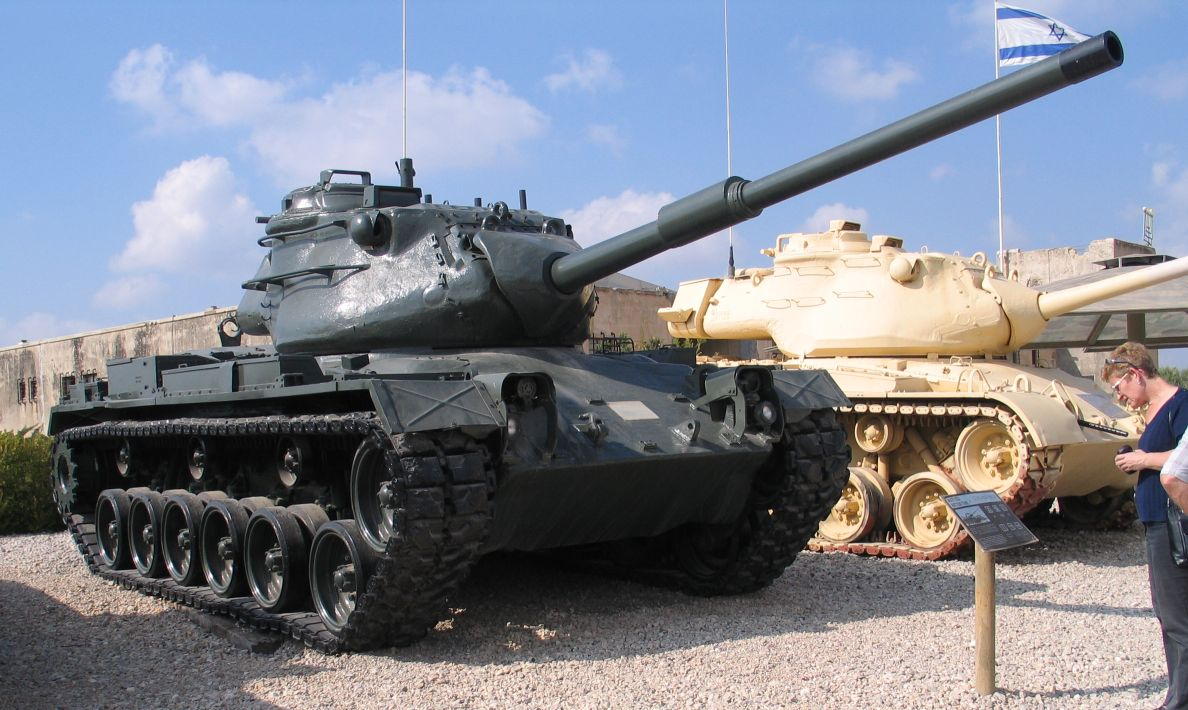 Description: M47E2 Patton tank in Yad la-Shiryon Museum, Israel. 2005. Source: Photo by me, User:Bukvoed.